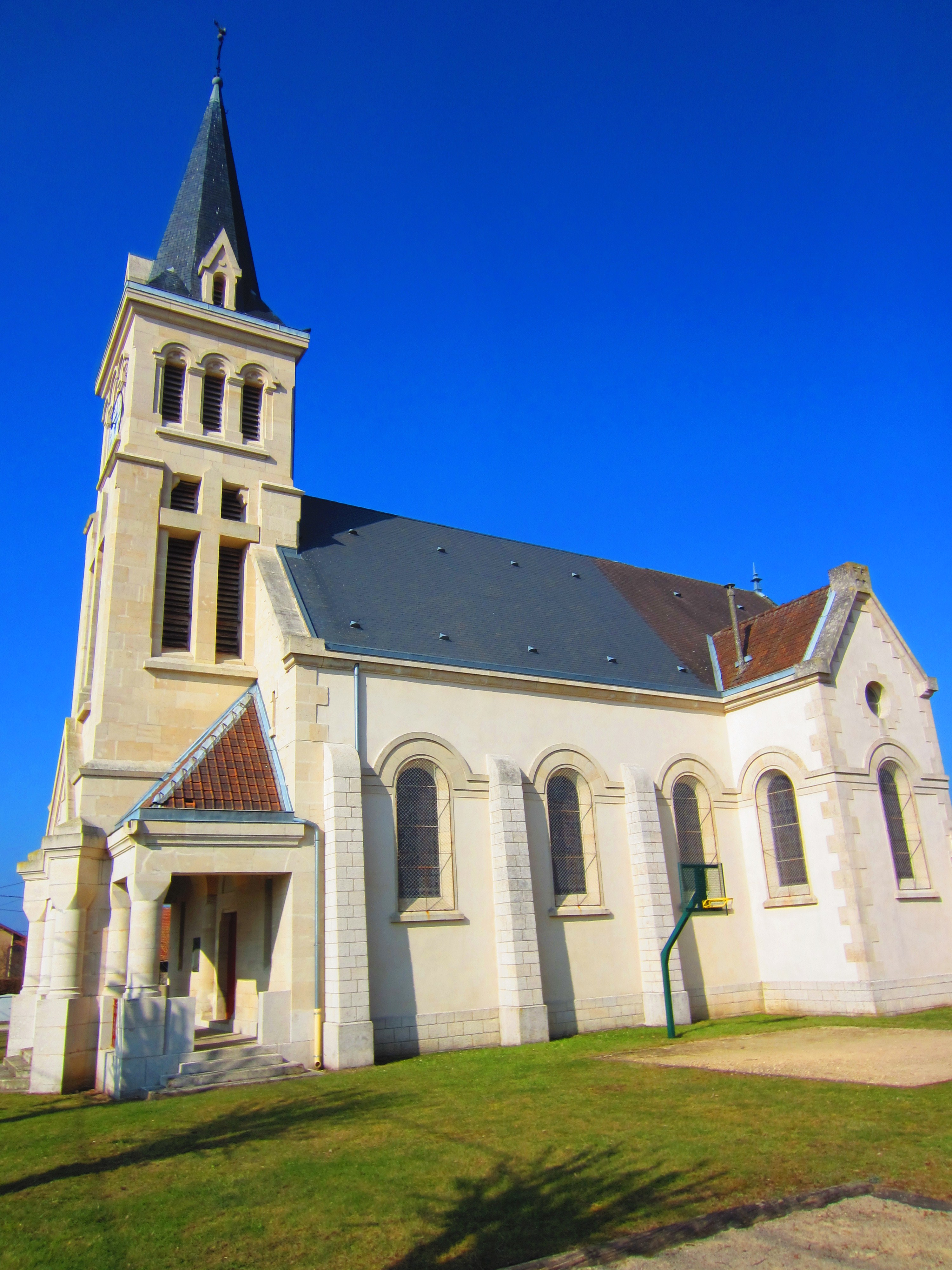 Seicheprey church